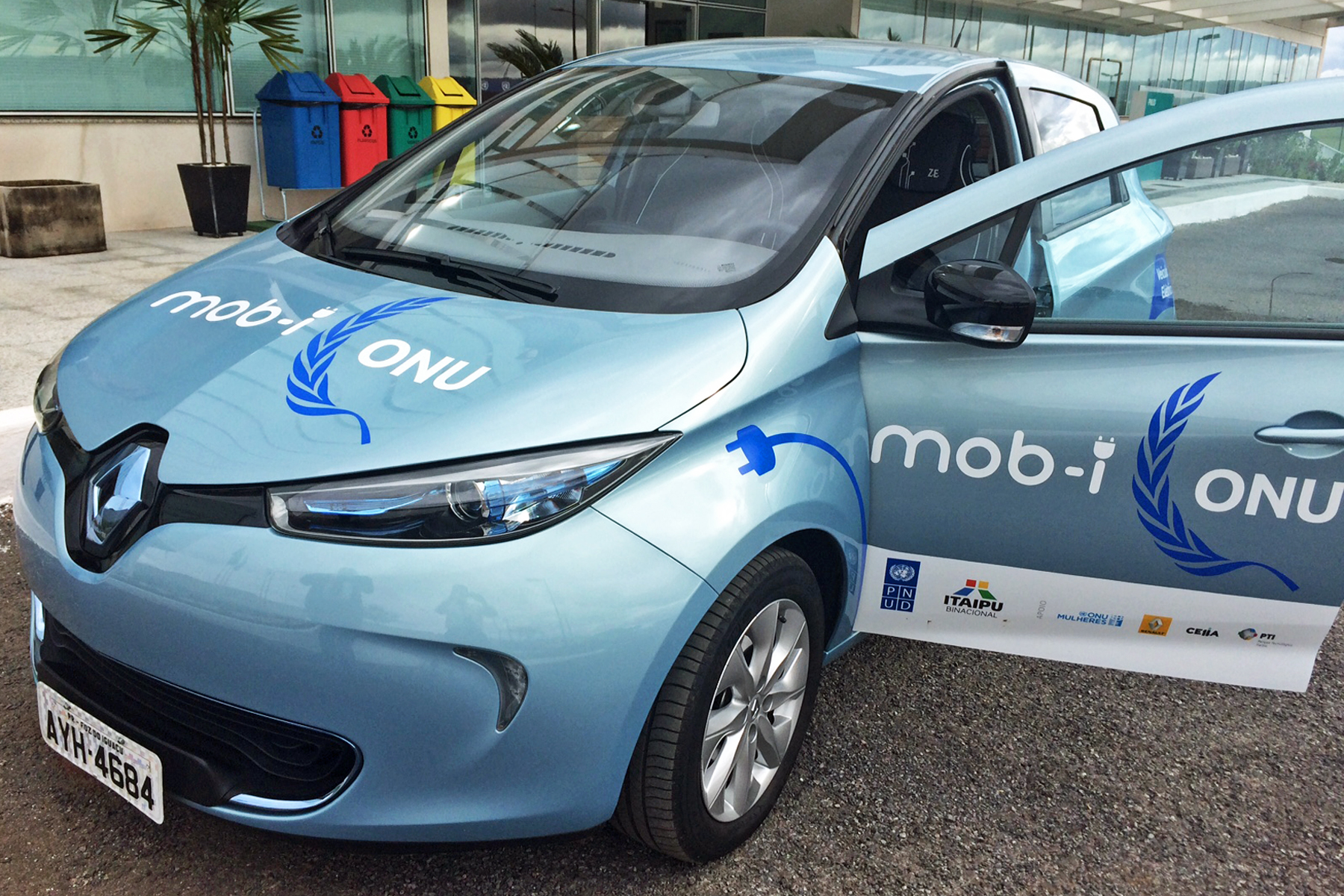 Renault Zoe all-electric car in use by PNUD in Brasilia, Brazil